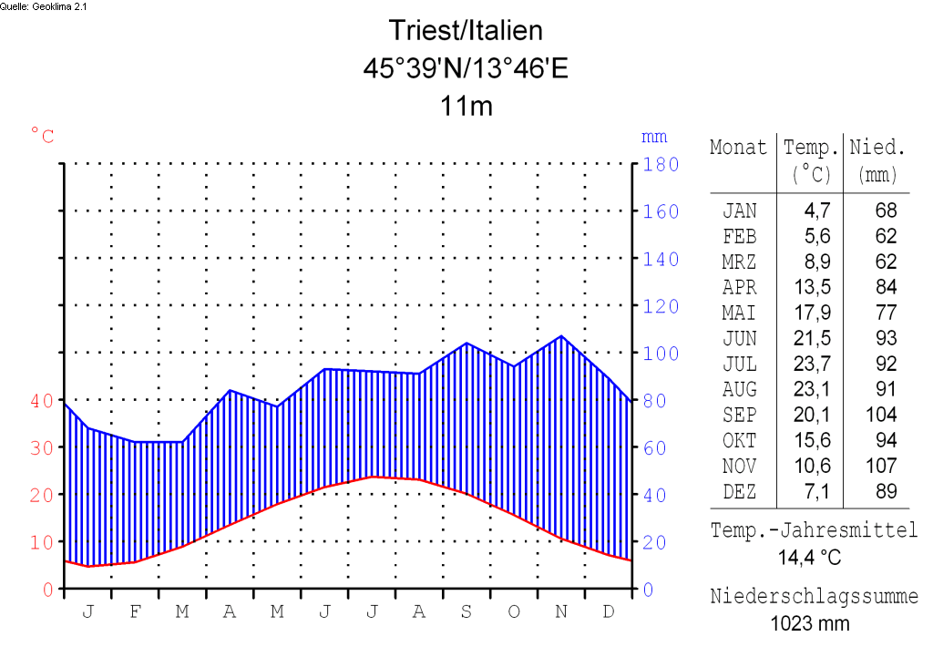 climate chart in the format by Walter and Lieth, metric, °Celsisus and millimeters, made with Geoklima 2.1